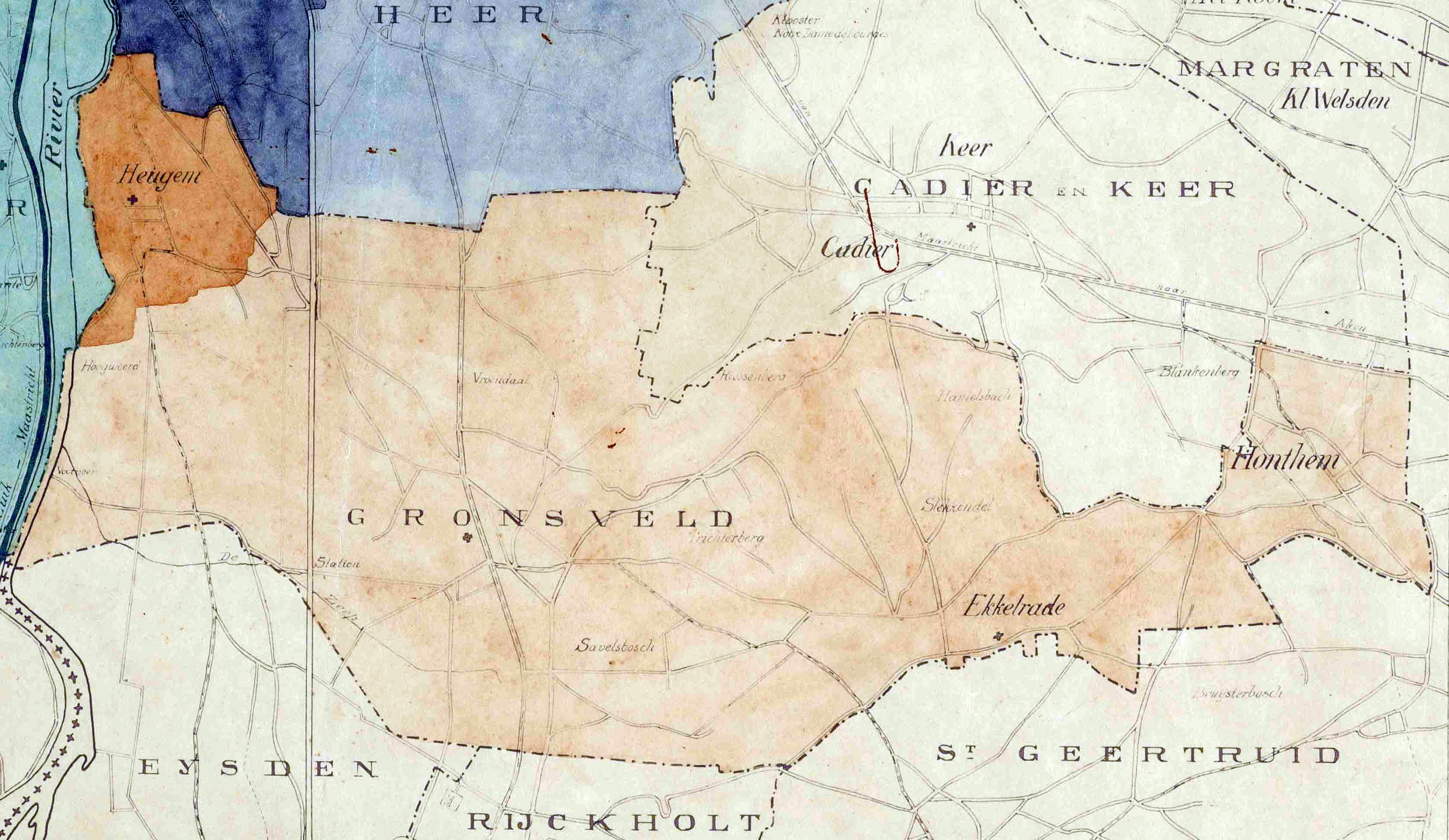 Map of the annexation of parts of Gronsveld and other municipalities by the city of Maastricht, Netherlands, in 1920. Collection of RHCL Maastricht, RAL K 171 2.